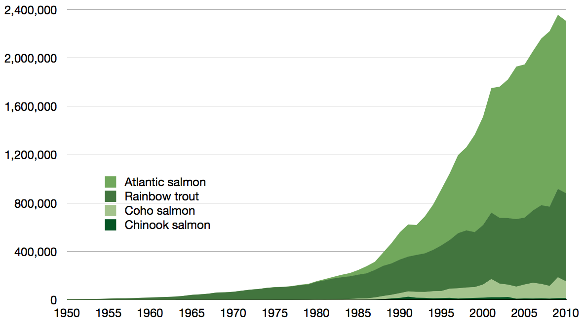 Global aquaculture production of salmonid species in tonnes, 1950–2010, as reported by the FAO. Based on data sourced from the relevant FAO Species Fact Sheets